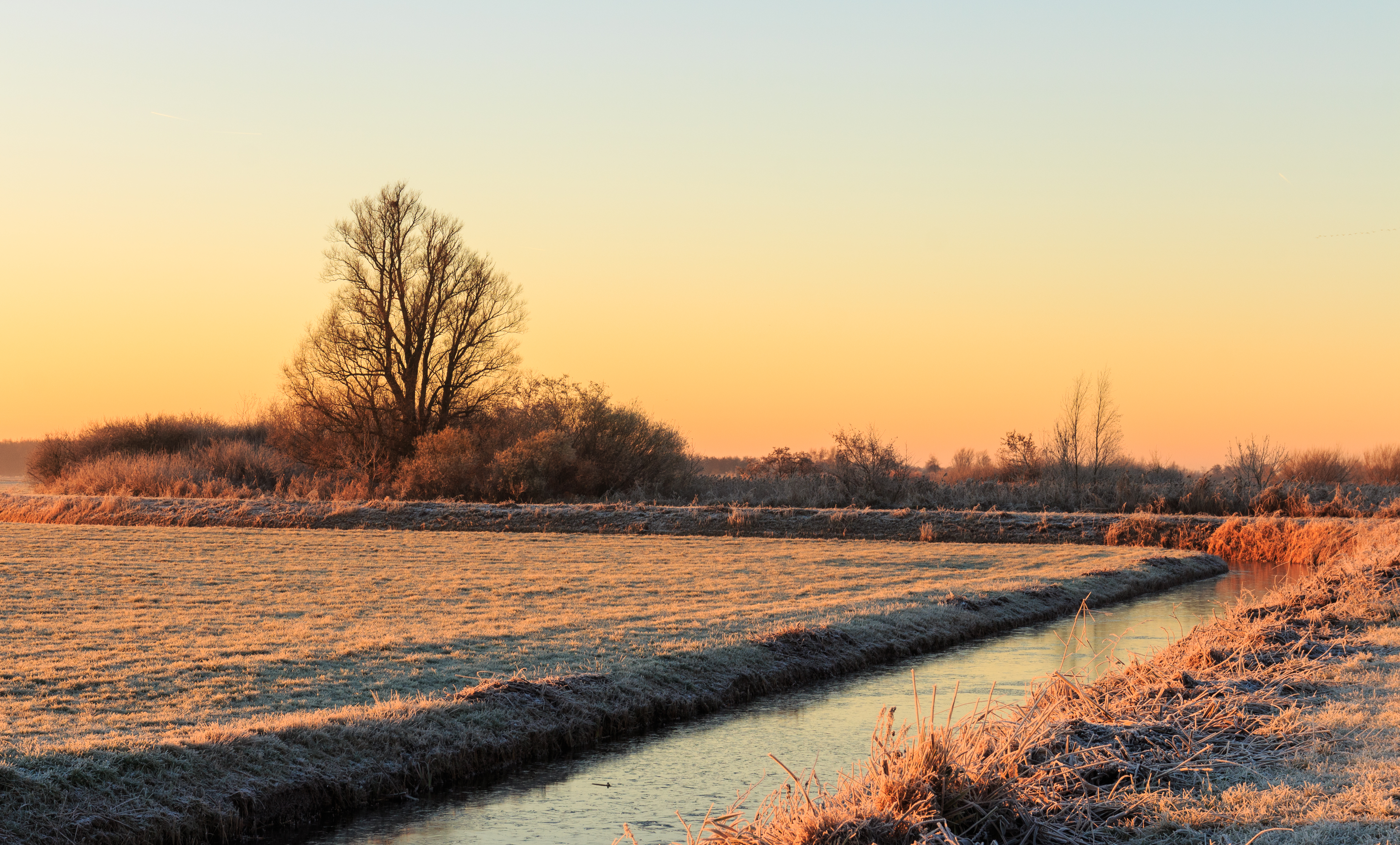 First sunbeams sweep over a winter landscape. Location, Langweerderwielen (Langwarder Wielen) and surroundings.